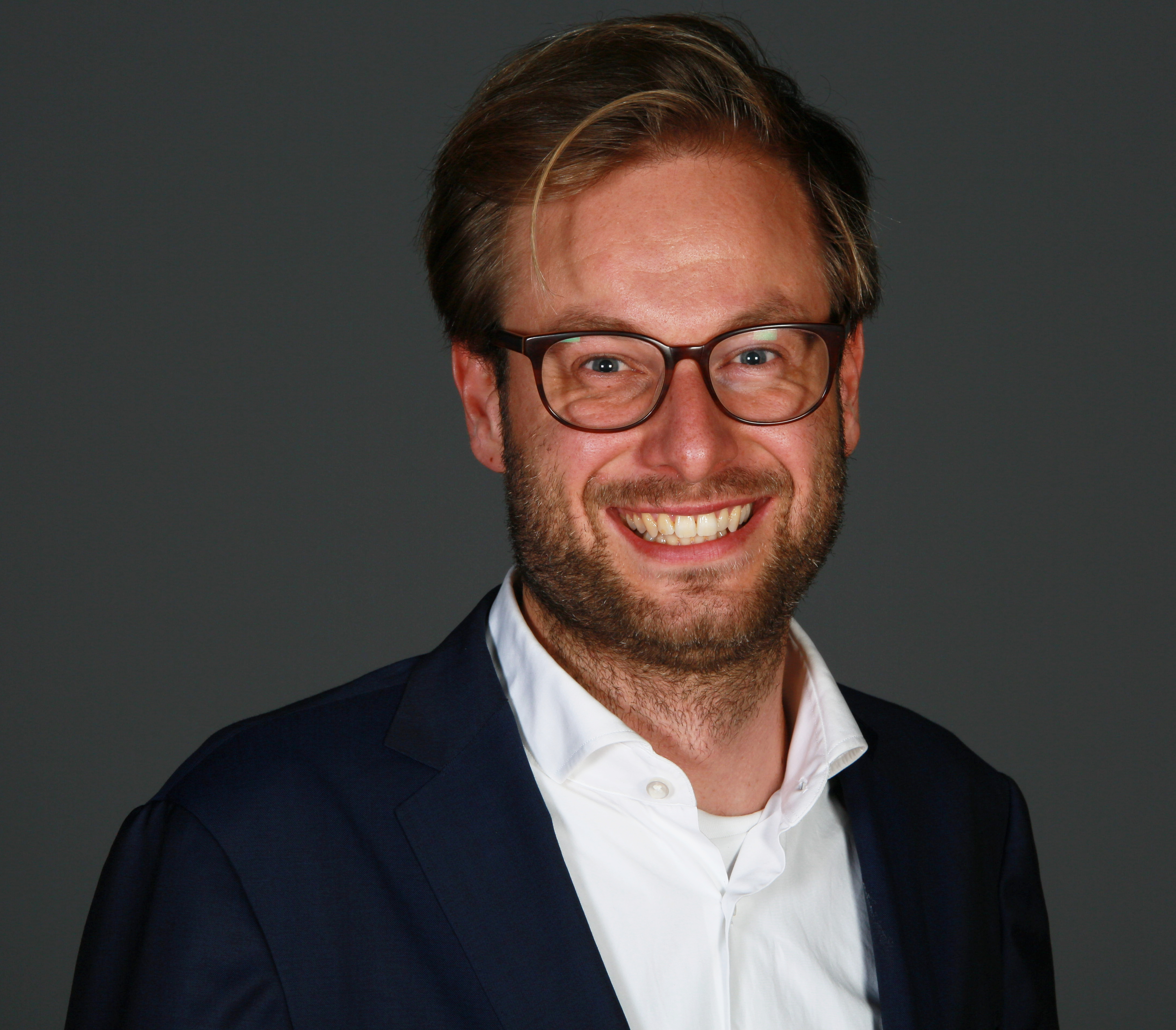 Dr. Anjes Tjarks (Bündnis 90/Die Grünen), member of the Hamburg Parliament